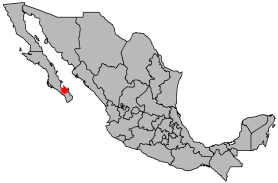 Location of La Paz, Baja California Sur, Mexico.